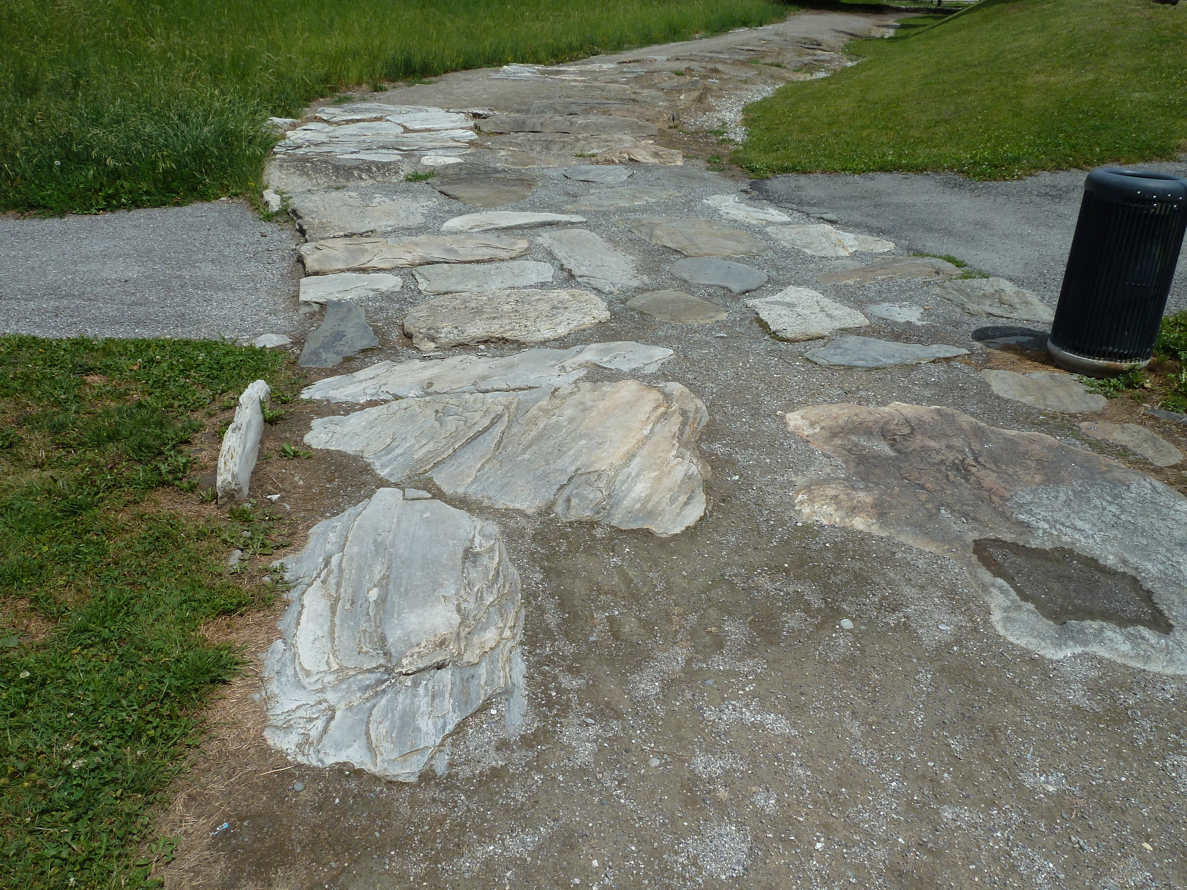 Via per Alpis Poenina (Martigny, Valais, Switzerland). Next to the amphitheater.